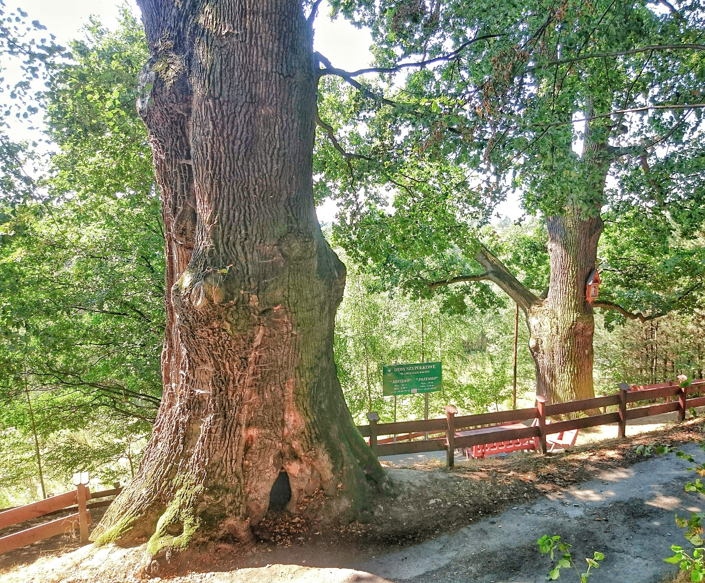 Two aged English oaks, Mieszko and Przemko.